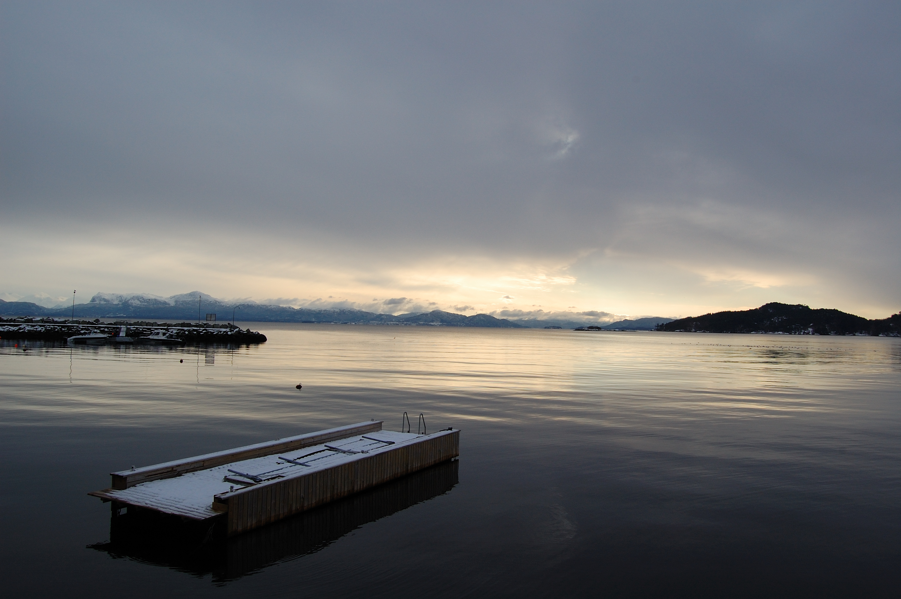 Dock in Os, Hordaland, Norway.